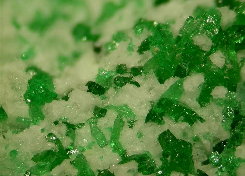 Natrochalcite Locality: Chuquicamata Mine, Chuquicamata District, Calama, El Loa Province, Antofagasta Region, Chile (Locality at ) Field of view 4 mm. Specimen and photo Leon Hupperichs.